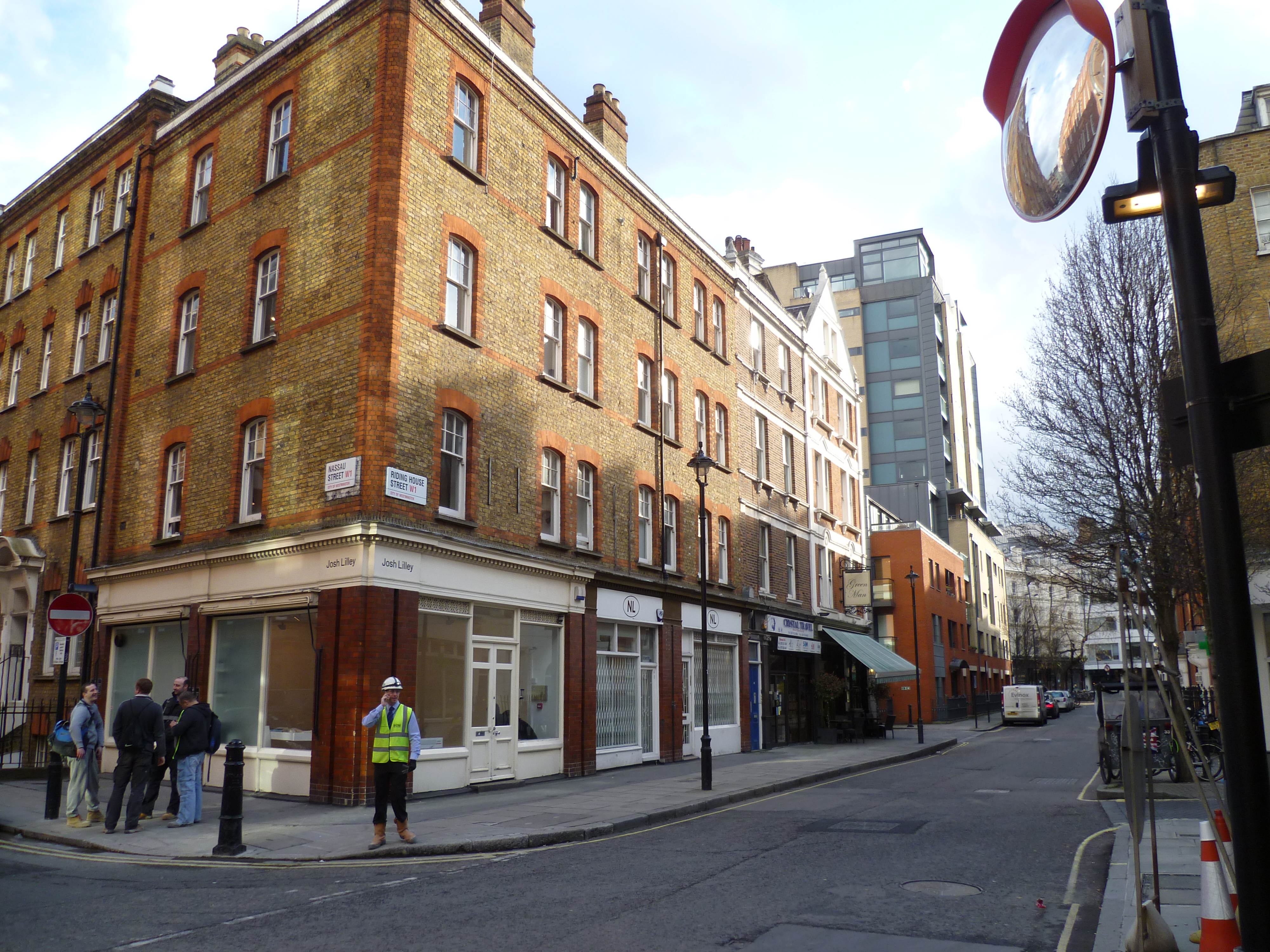 View of junction of Nassau Street and Riding House Street, London